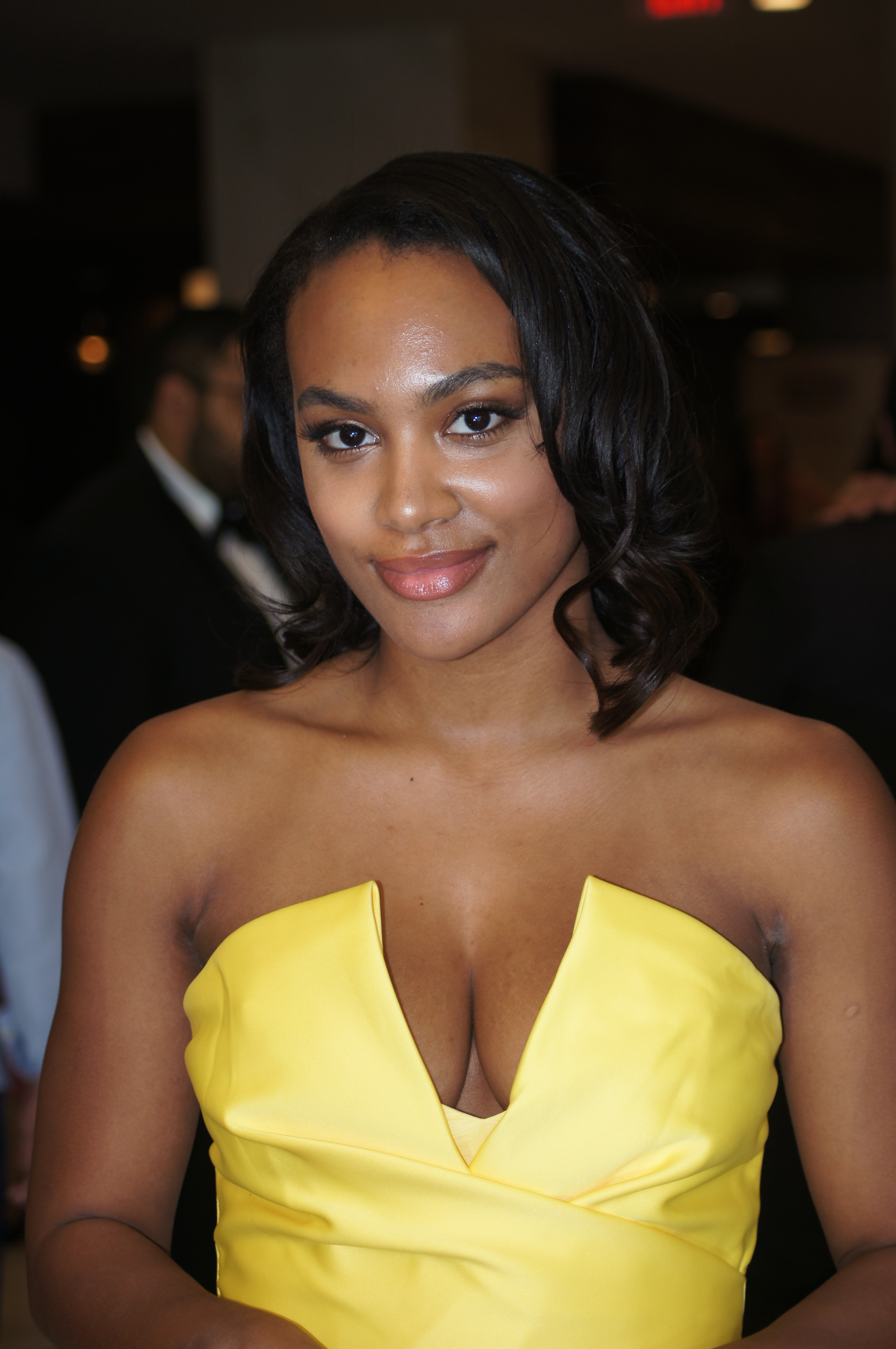 White house correspondents dinner 2019